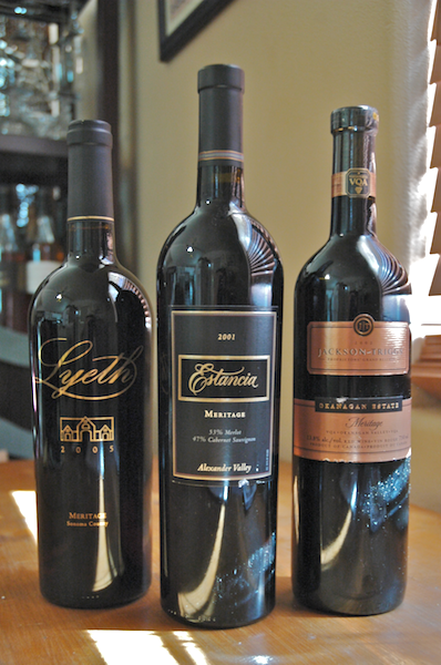 Three bottles of various Meritage Wines